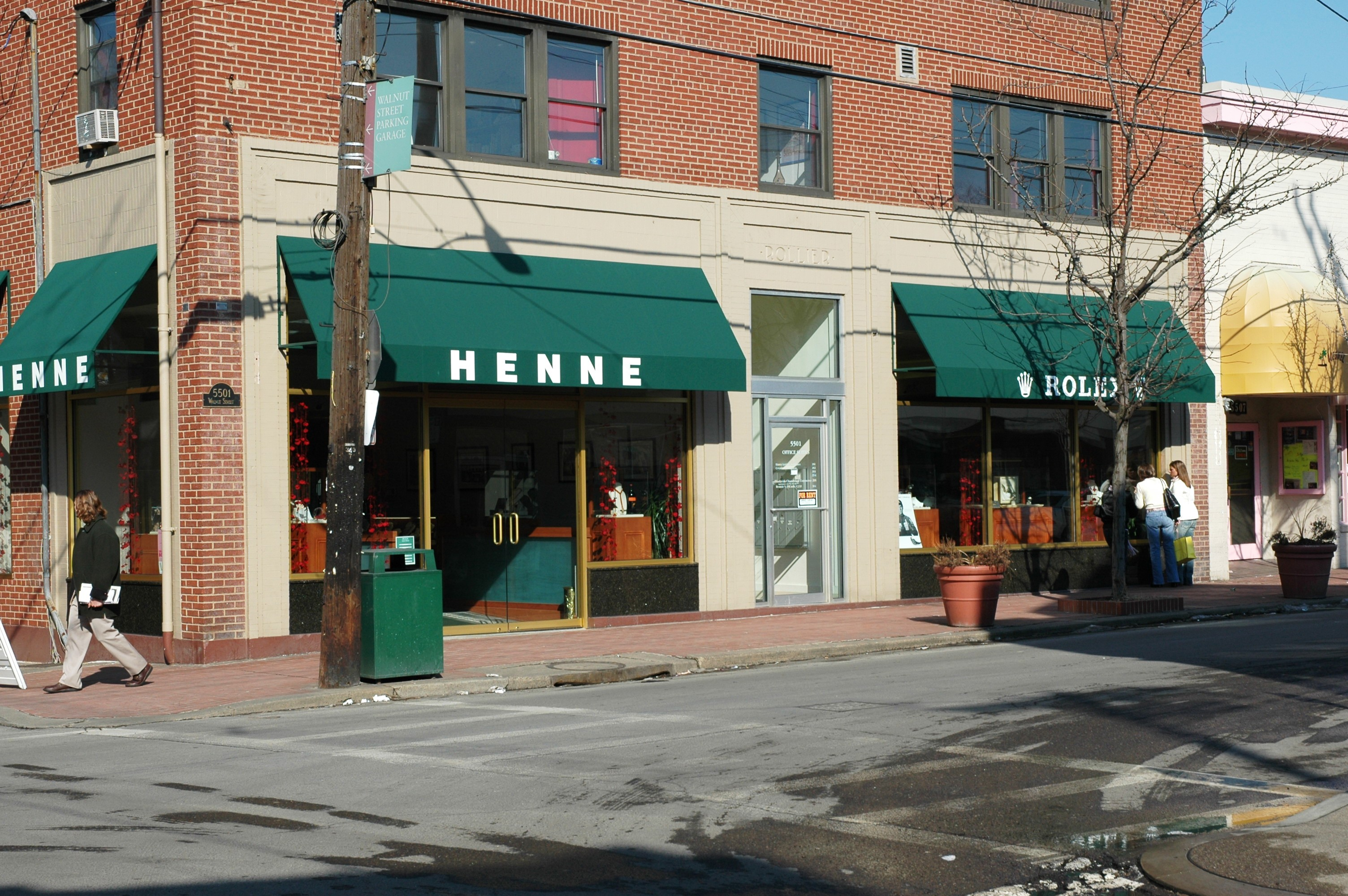 The owner gave me permission to use this for wikipedia and I took the photo myself.